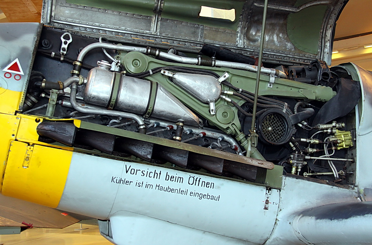 Messerschmitt Bf 109 G-6 (MT-507) in Aviation Museum of Central Finland.